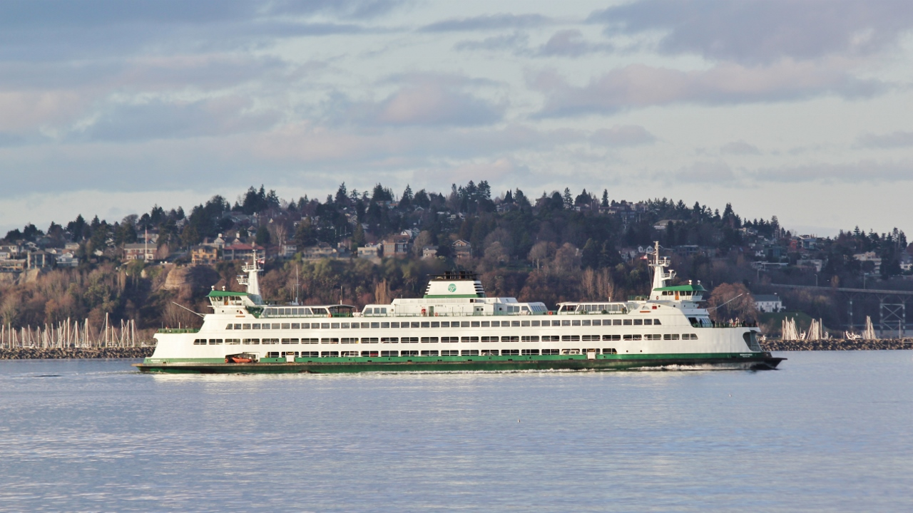 The MV Wenatchee passes Duwamish Head as sailing to Seattle